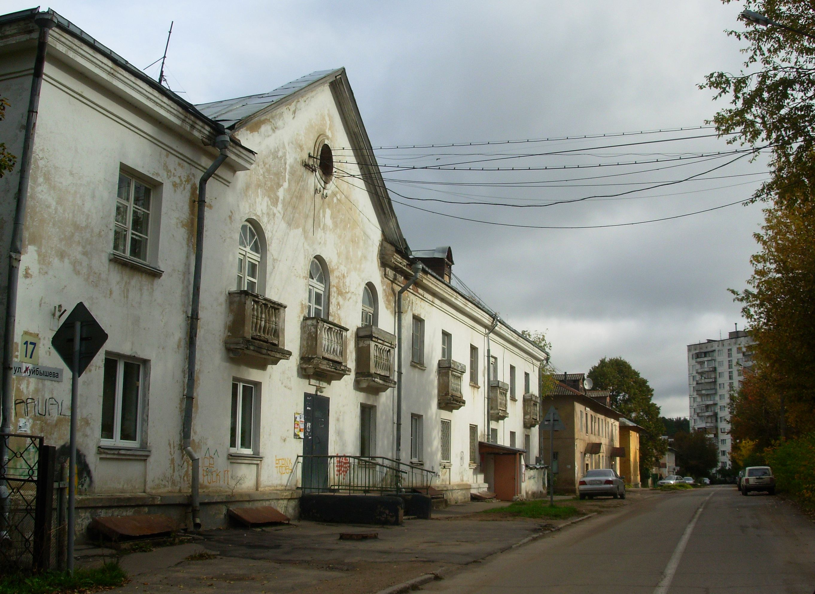 old street in Mendeleevo